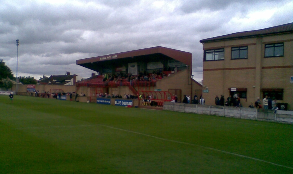 Butcher's Arms Ground in 2007.